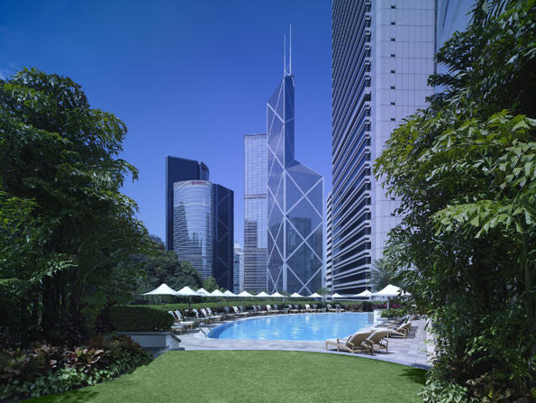 Island Shangri-La, Hong Kong - Swimming Pool